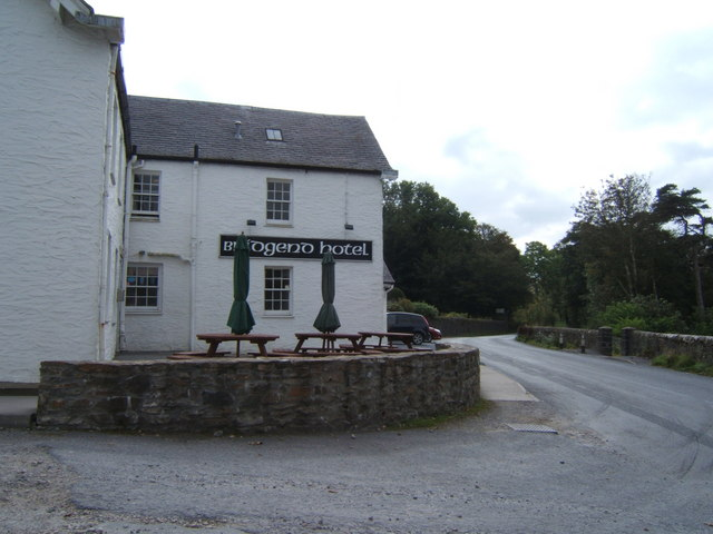 The Bridgend Hotel Parasols furled; but shortly after this picture was taken, the sun came out - and so did the customers, enjoying their drinks at the outdoor tables.